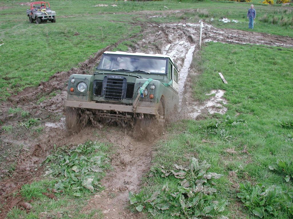 Off Road Driving Photo #1